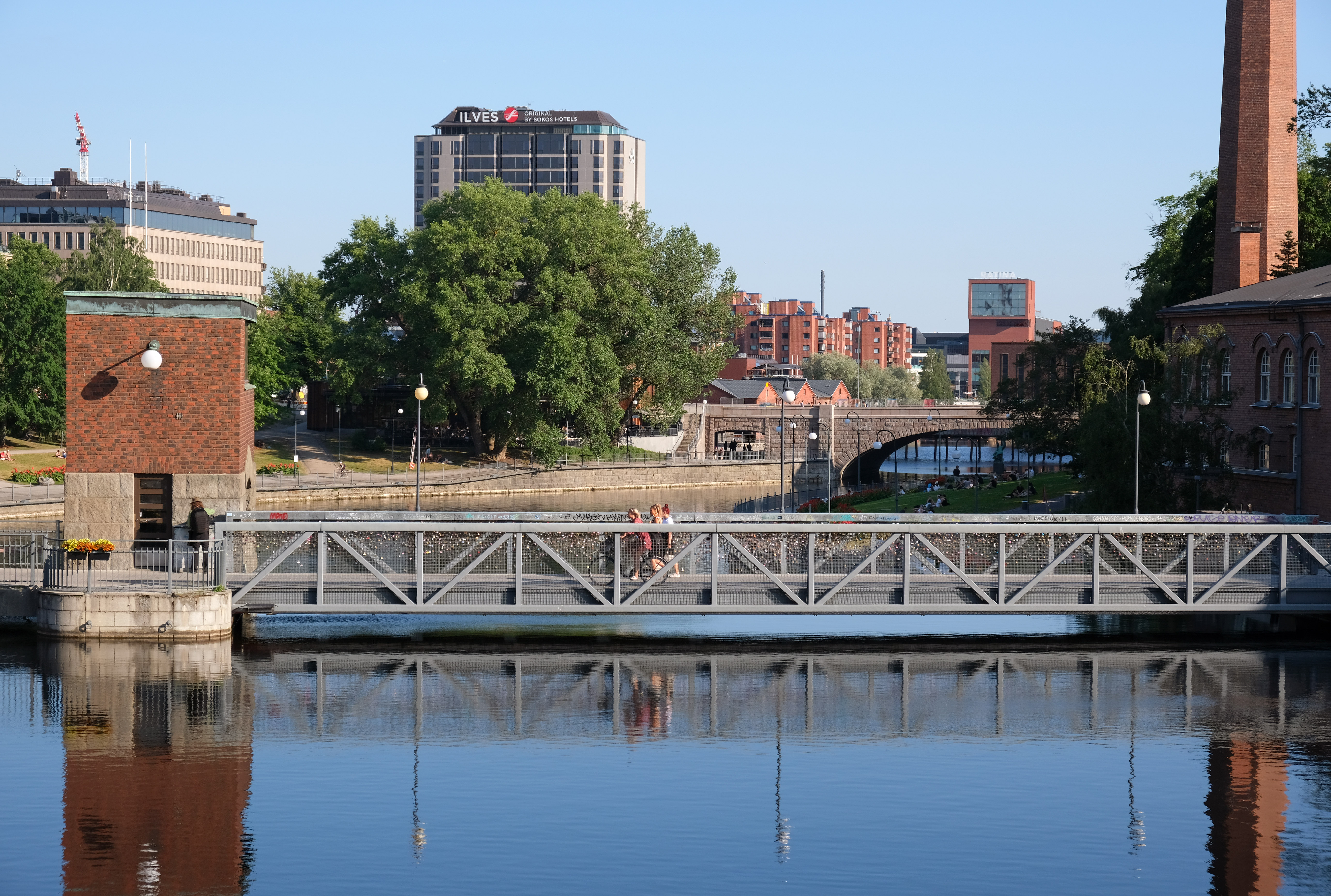 View from Satakunnansilta Bridge, Tampere: Patosilta and Tammerkoski.